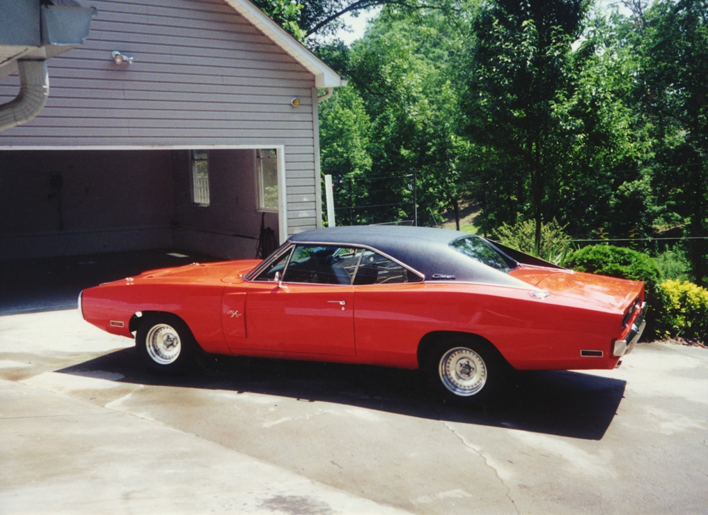 1970 Dodge Charger RT I took this picture of my 1970 Dodge Charger RT Fuel Injected 440 car. The car is a maching numbers Charger with a Dana rear end w/ 4.10 gears. Automatic on the Floor w/ console. Originally the car sported the black out on the hood and a Longtidunal Stripe. I took this picture in Rome, Ga back in 1999 within a month of finishing the restoration on it. I had just washed the car as you can see. I used a Kodak DX4330 camera.